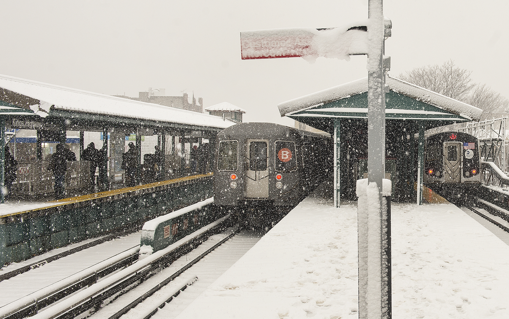 B and Q trains leave Kings Highway station in Brooklyn during snowstorm on February 3, 2014. Photo: MTA / Patrick Cashin